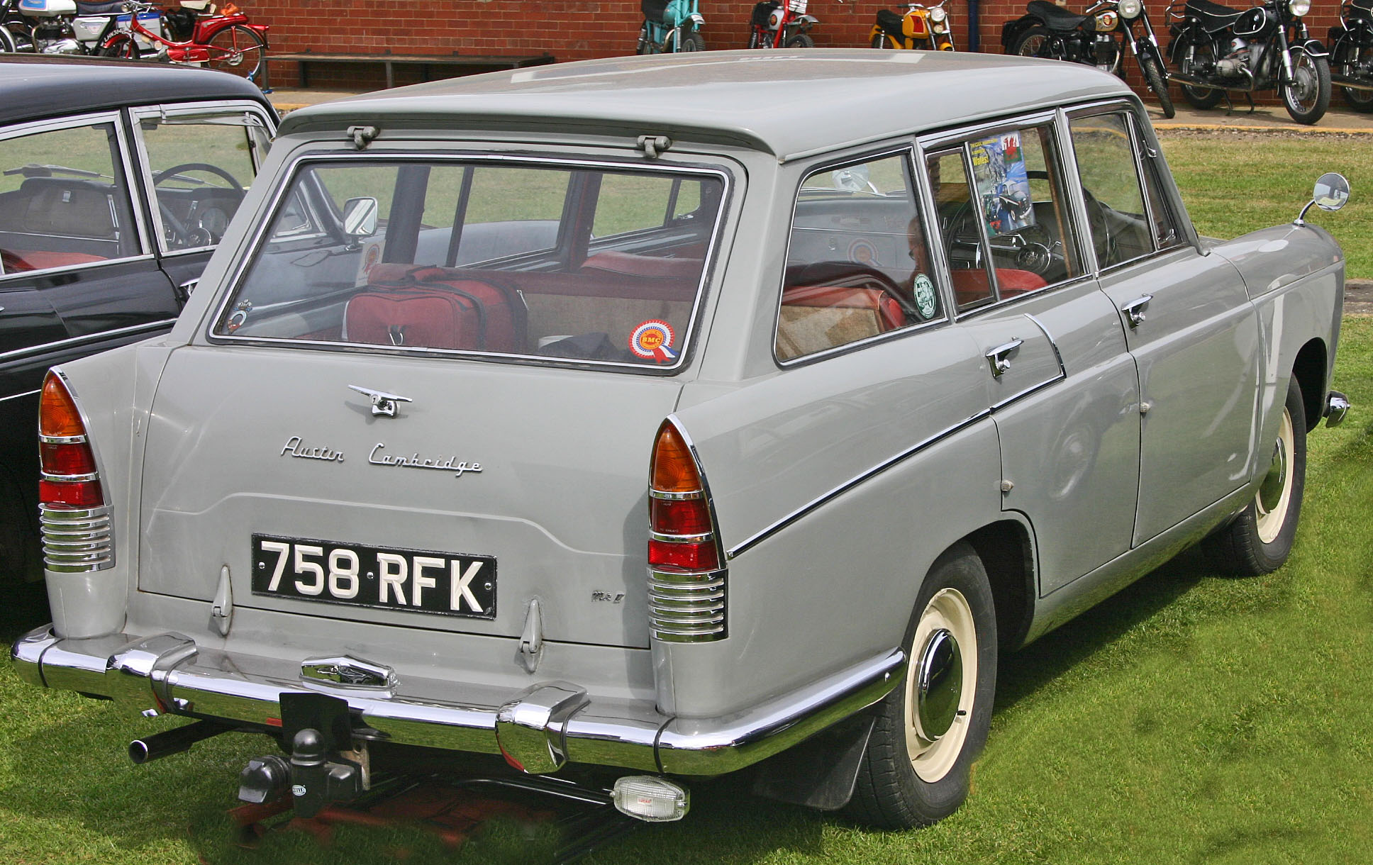 Countryman (or Estate) version of the Austin A55 MkII Cambridge. Austin Estates were always called 'Countryman' and Morris ones were called 'Traveller', but there was little difference between them